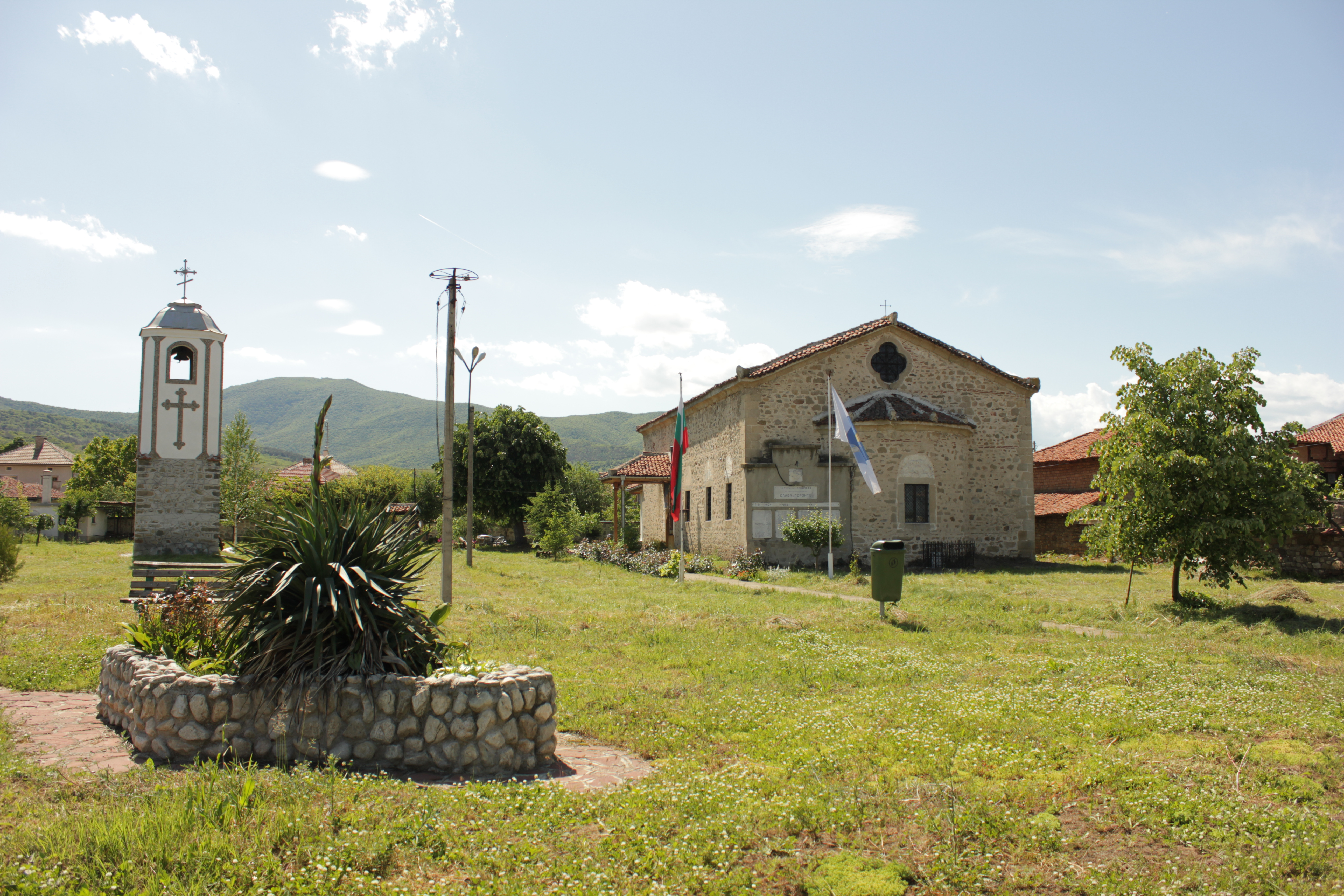 Saint Demetrius church in Voynyagovo